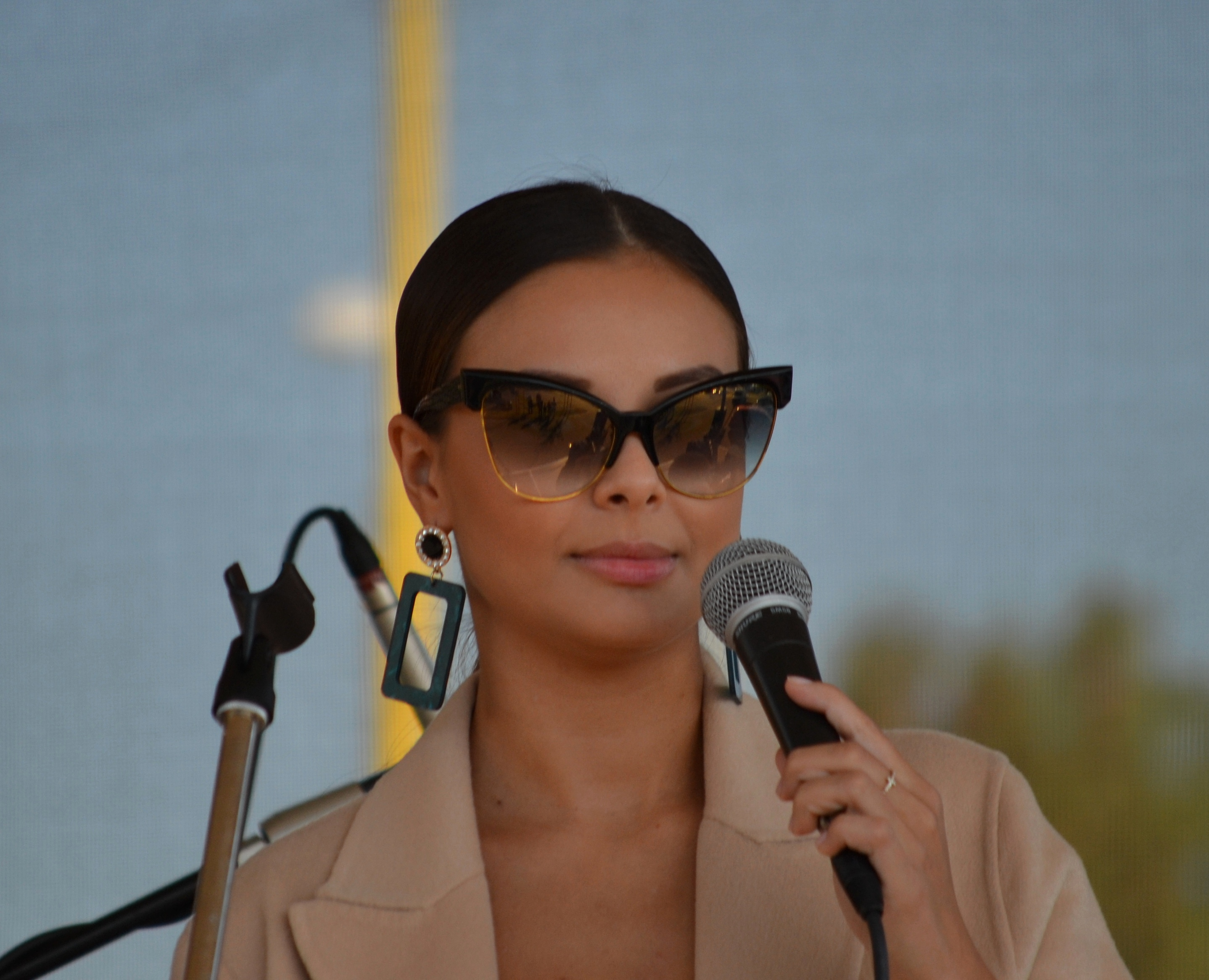 Monika Bagárová & RnB Band in Lučenec - Opatová (2018)